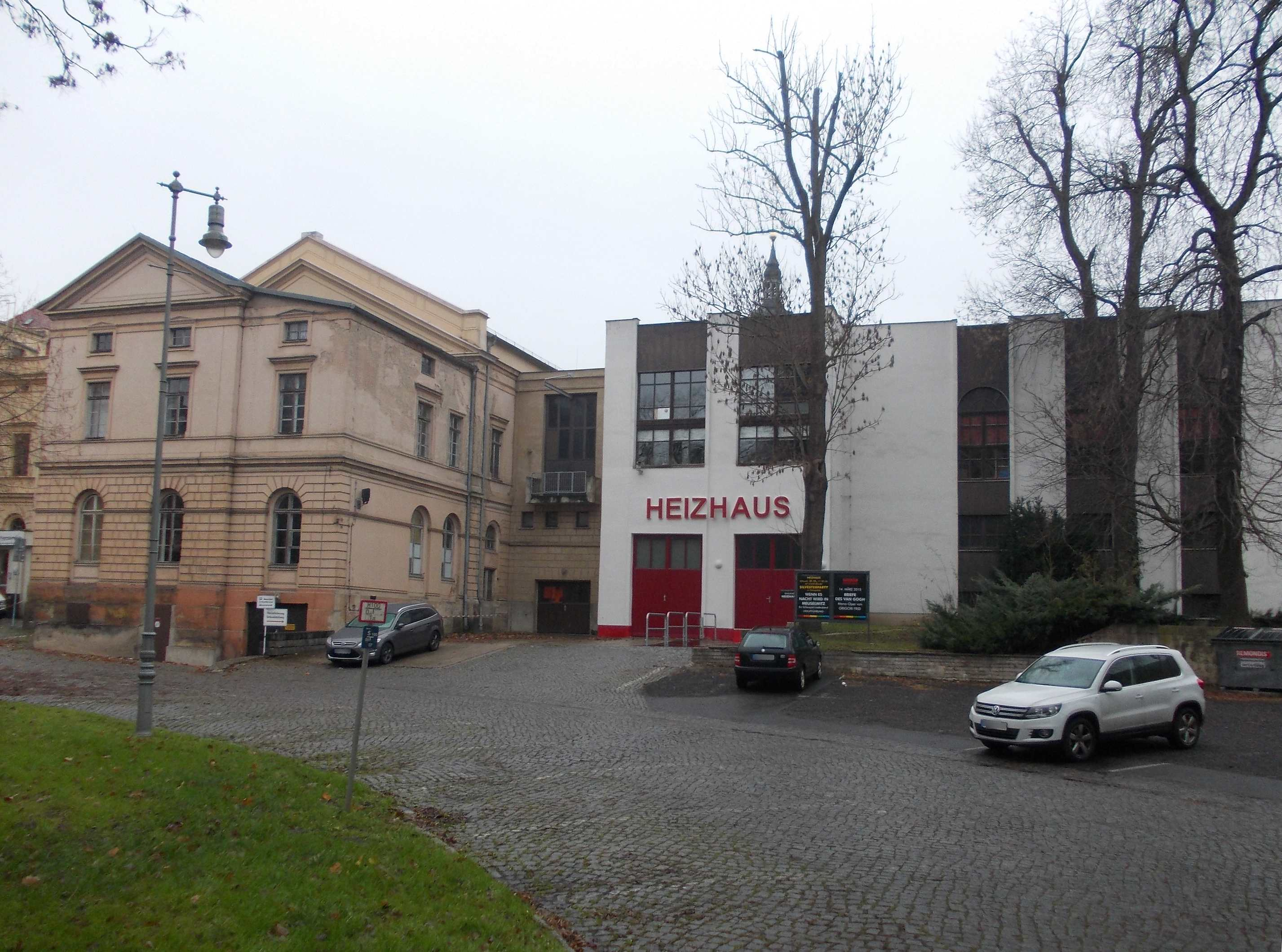 The theatre in Altenburg (Thuringia) with its branch in the former heating house